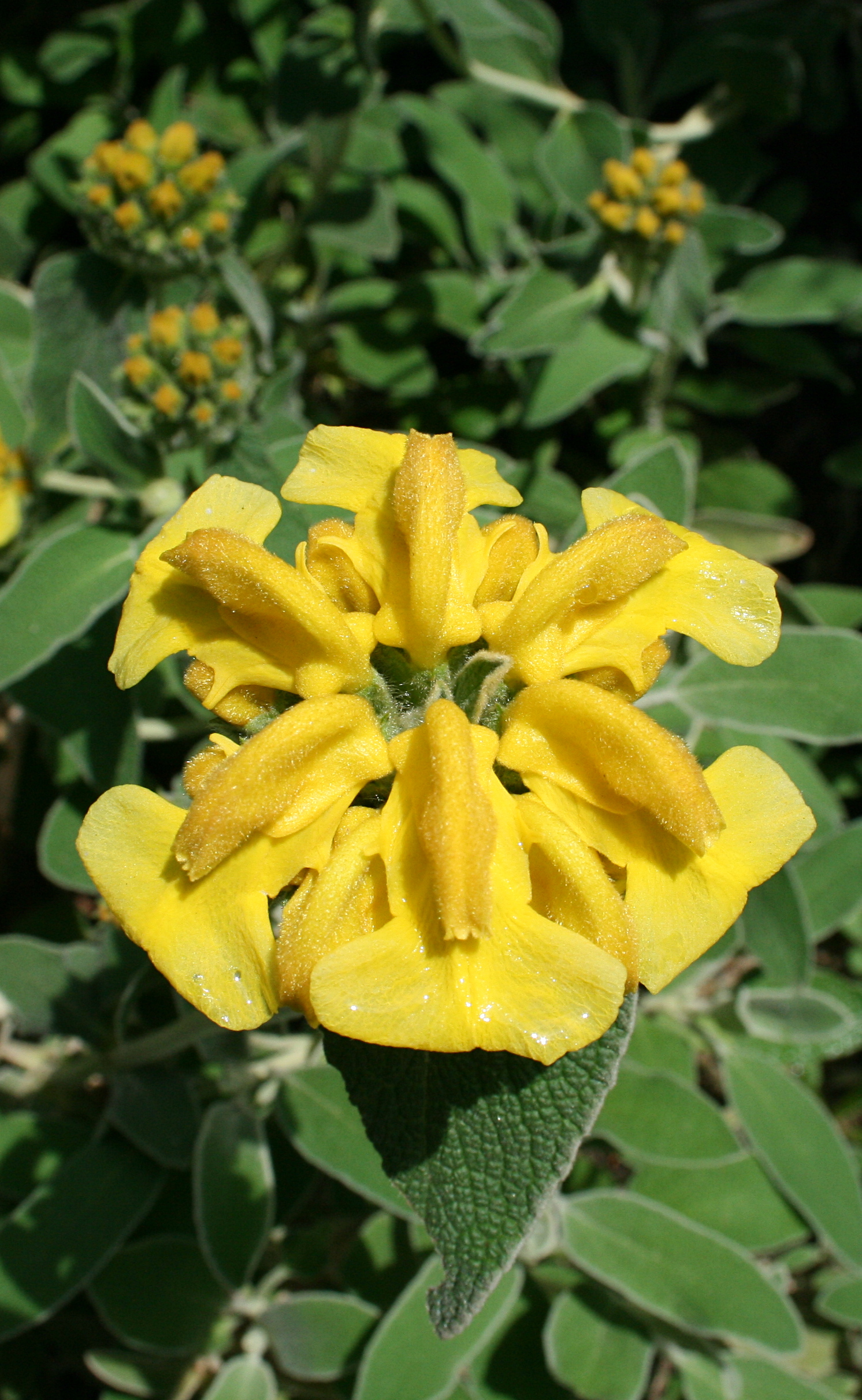 Jerusalem Sage